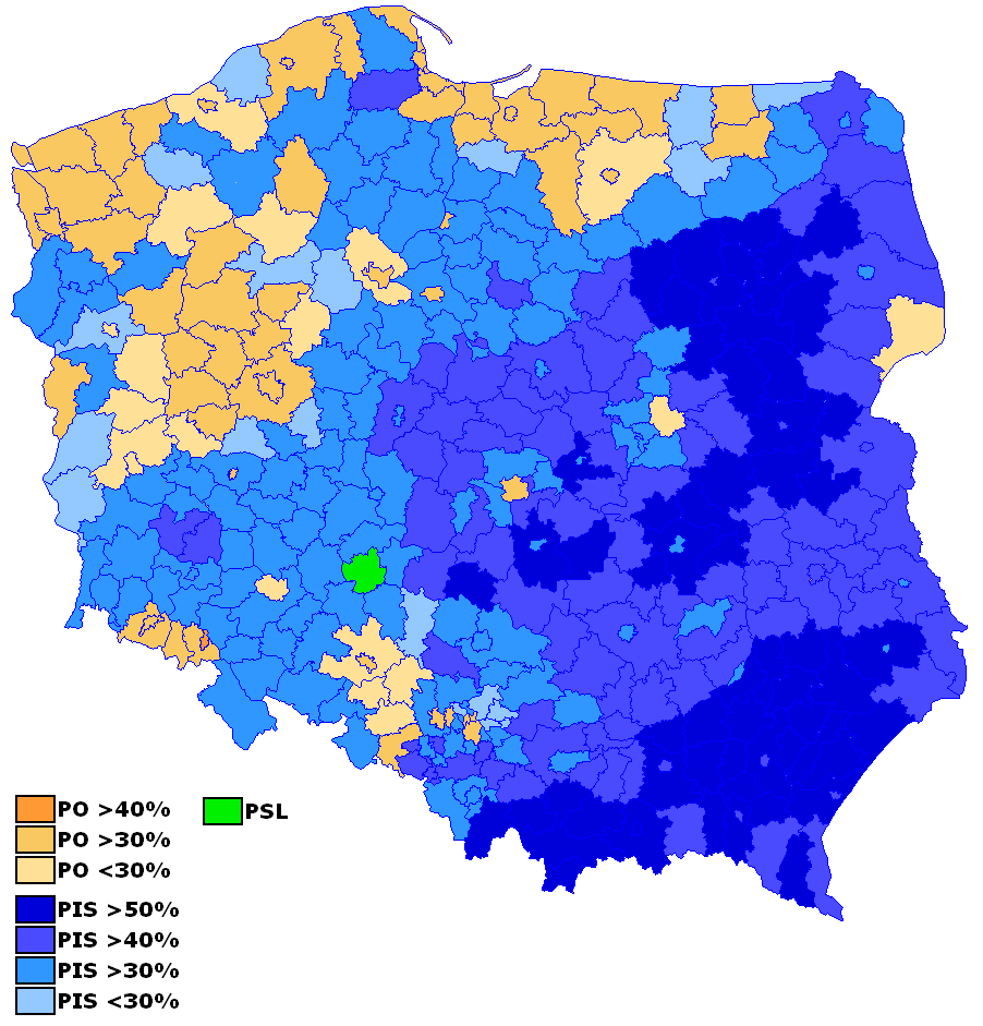 2015 Polish parliamentary election, result by counties.